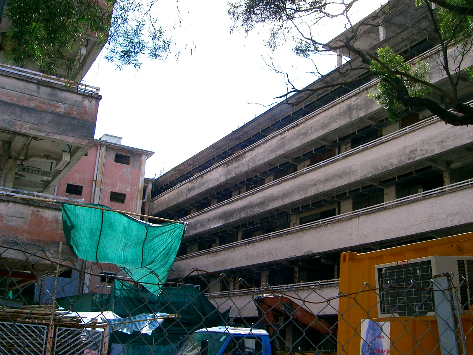 A view taken from Choi Ha Road towards the west. A side of Jordan Valley Factory Estate is seen.